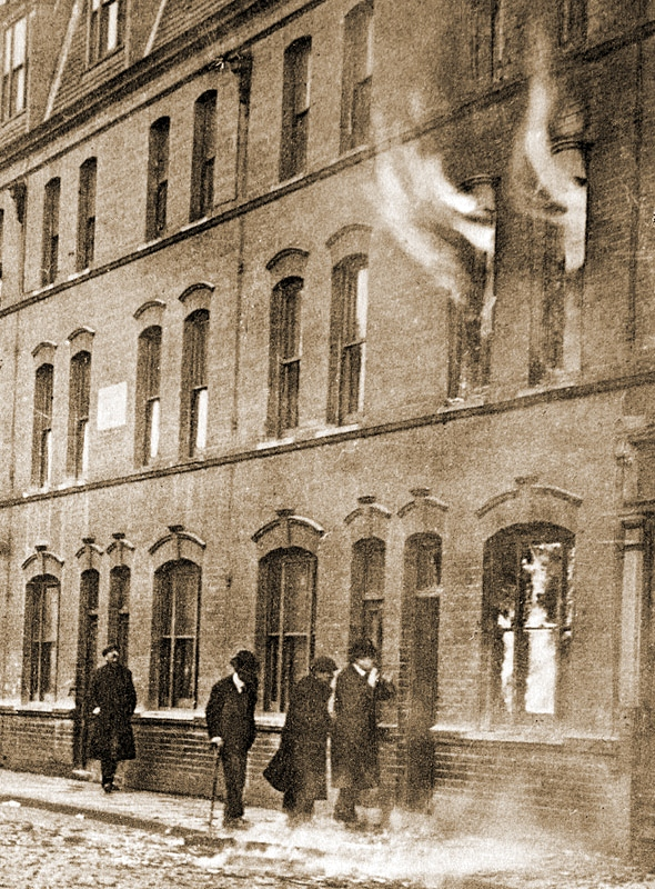 Detectives from Scotland Yard inspect the burning house at the centre of the Siege of Sidney Street, 3 January 1911. Note the debris on the street from the earlier gun battle.